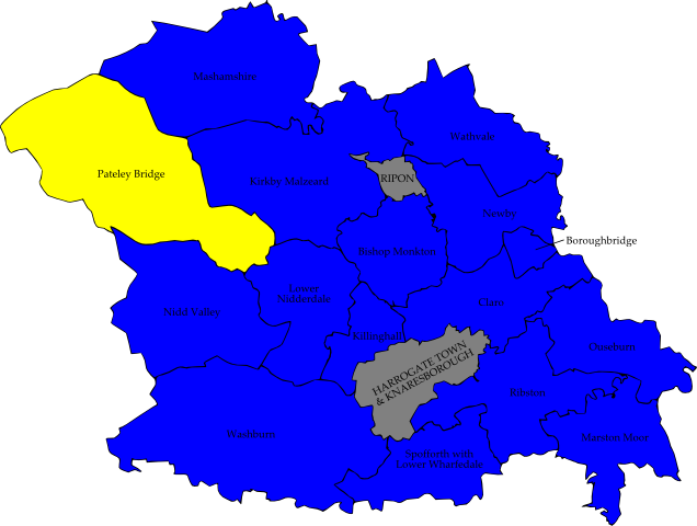 A map of the results of the 2008 Harrogate Council election. Colour legend by wards won: Liberal Democrats Conservative party Urban areas of the council, which did not have elections in 2008, are shown in grey.